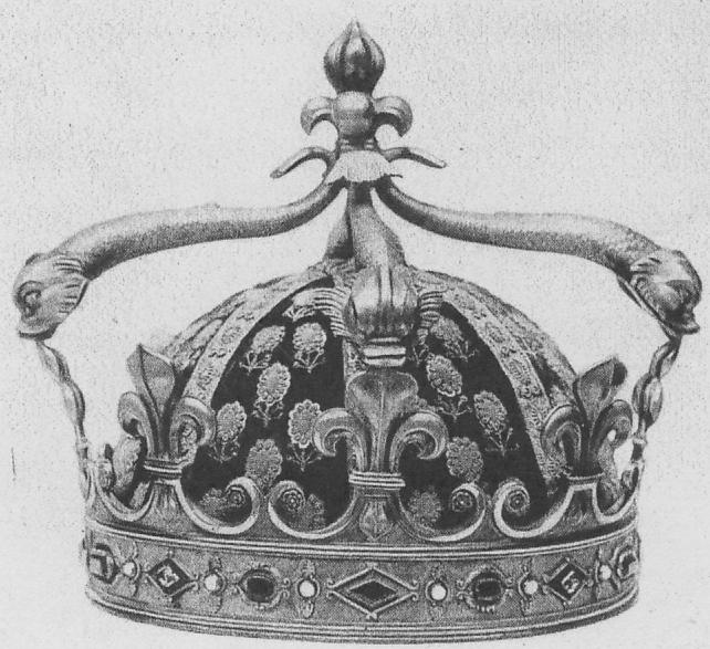 Crown of Dauphin Louis Antoine worn at the Coronation of King Charles X. Jean-Charles Cahier (1772–1857) DescriptionFrench goldsmithDate of birth/death 1772 17 October 1857Location of birth/death Soissons MarseilleWork location Paris (1801–1830)Authority control : Q62909316 SUDOC: 136545742 creator QS:P170,Q62909316 Original description: "COURONNE D'OR PORTEE PAR LE DUC D'ANGOULÈME AU SACRE DE CHARTES X Exécutée par Cahier, or fevre: de la Couronne Garde-Meuble national"